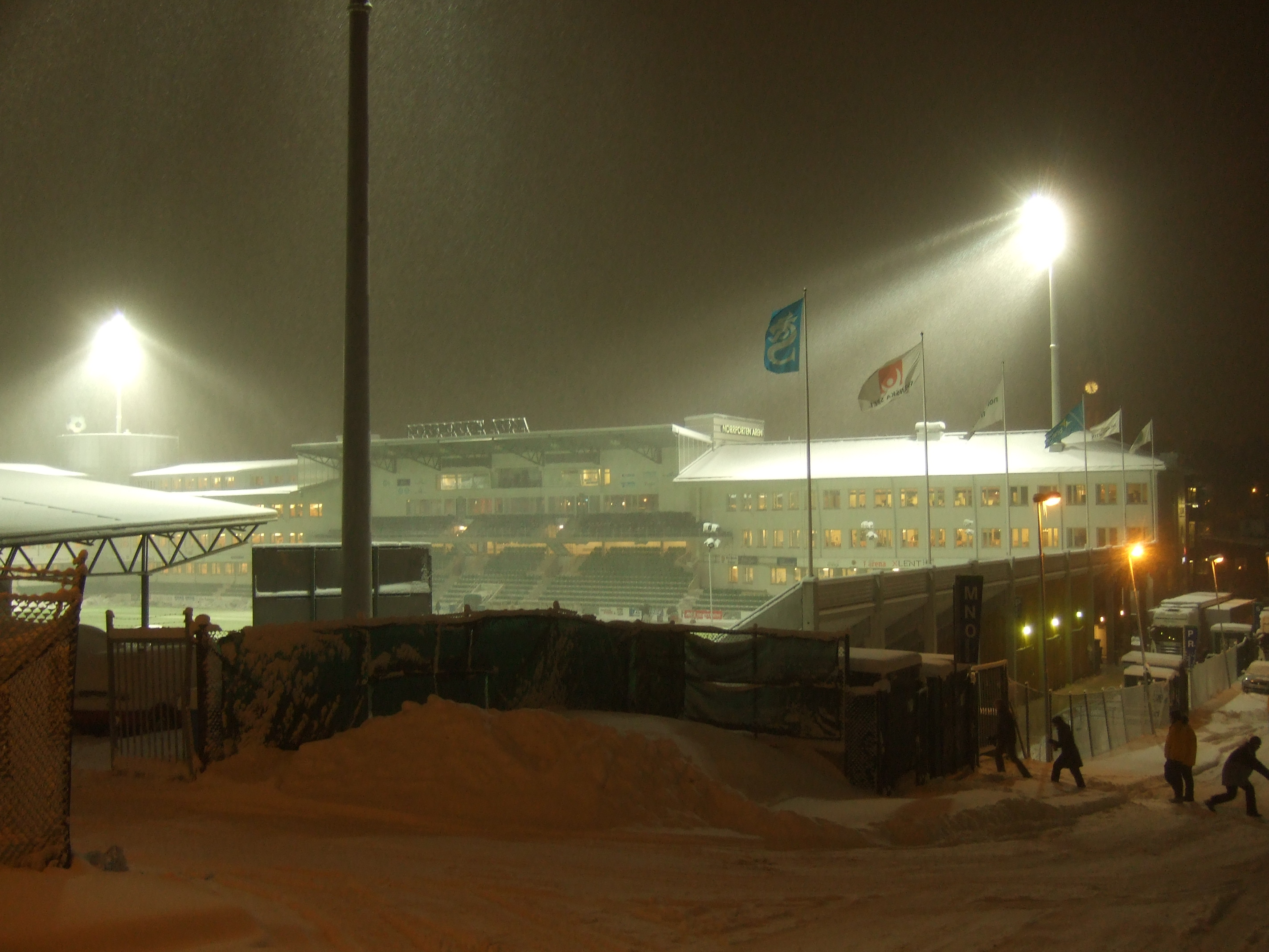 Snowstorm on game night at the football venue of "Norrporten Arena" at Universitetsallén 2-8 in Sundsvall. South bleachers and west spectator entrance viewed from north.